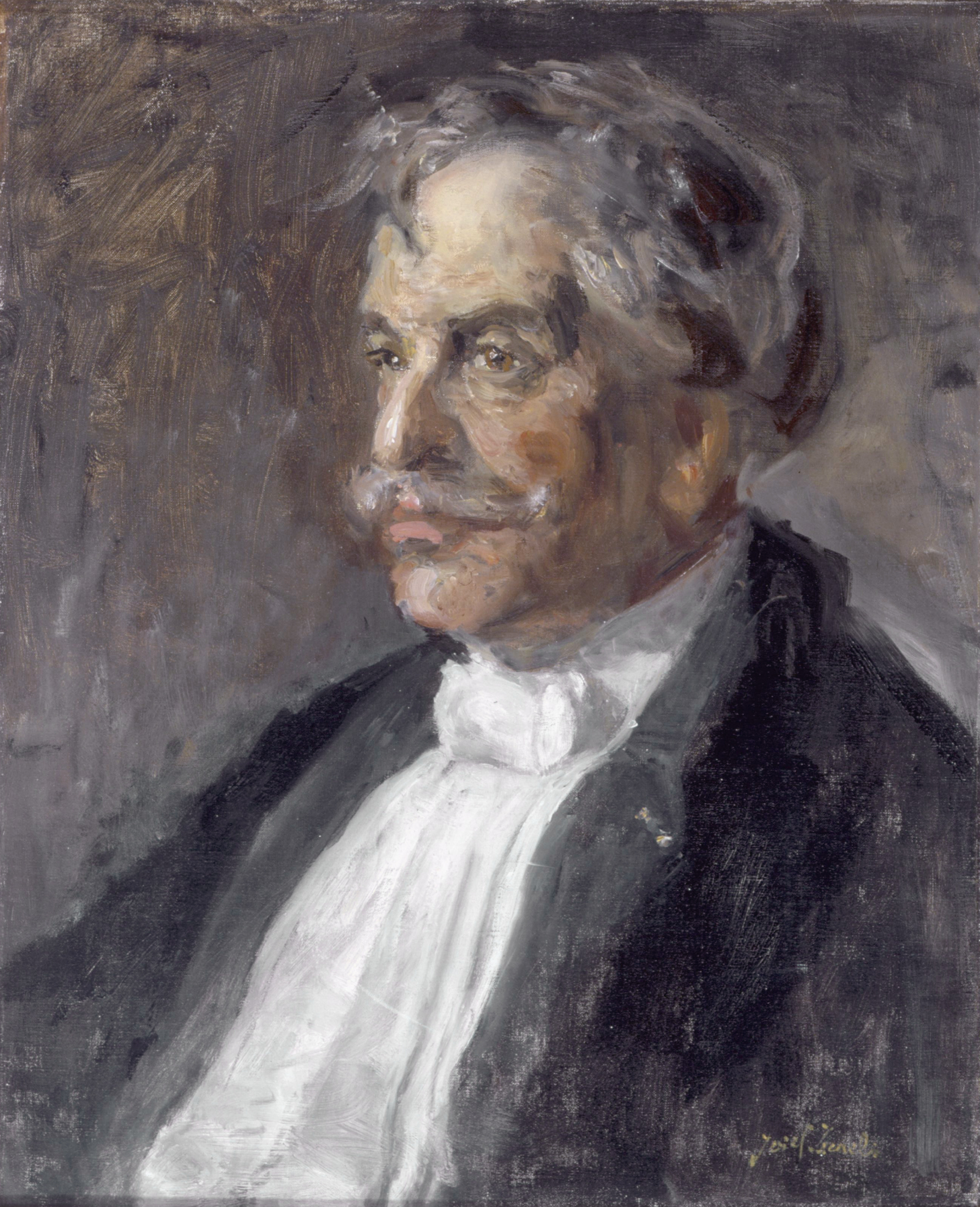 Gerard Anton van Hamel (1842-1917) oil on canvas 59 x 48 cm 1870-1911 signed b.r.: Jozef Israels